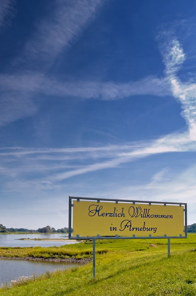 Arneburg greeting